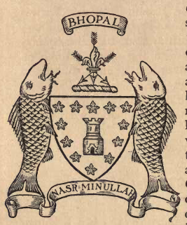 Coat of Arms of the Indian Princely state of Bhopal. The insignia on the coat of arms (Maha Muratib or "the dignity of the Fish") was granted by Nizam-ul-Mulk to Yar Mohammad, the son of Bhopal's founder Dost Mohammad Khan.